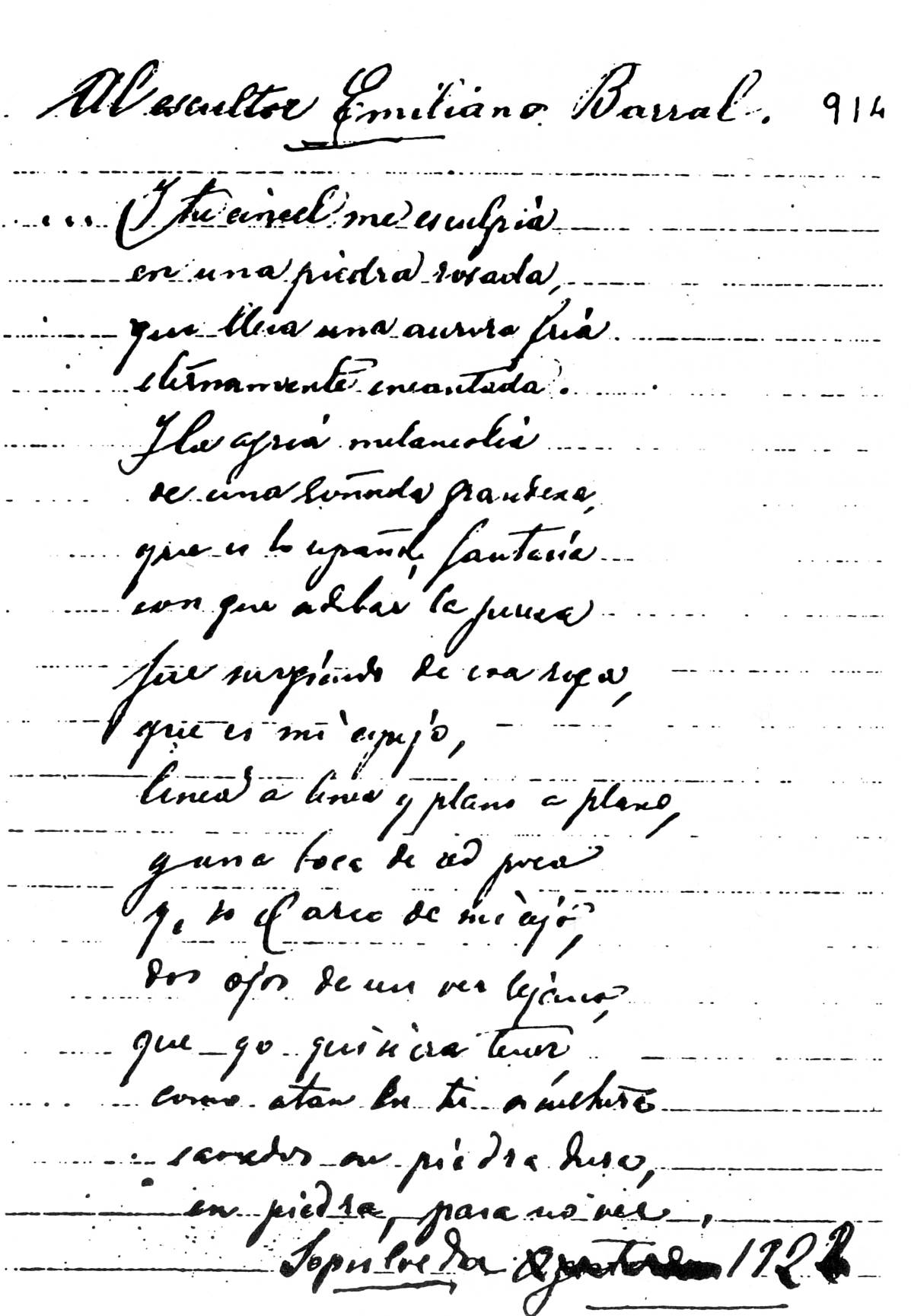 Autograph page of Antonio Machado (1875-1939), the poem dedicated to the sculptor Emiliano Barral in 1922.